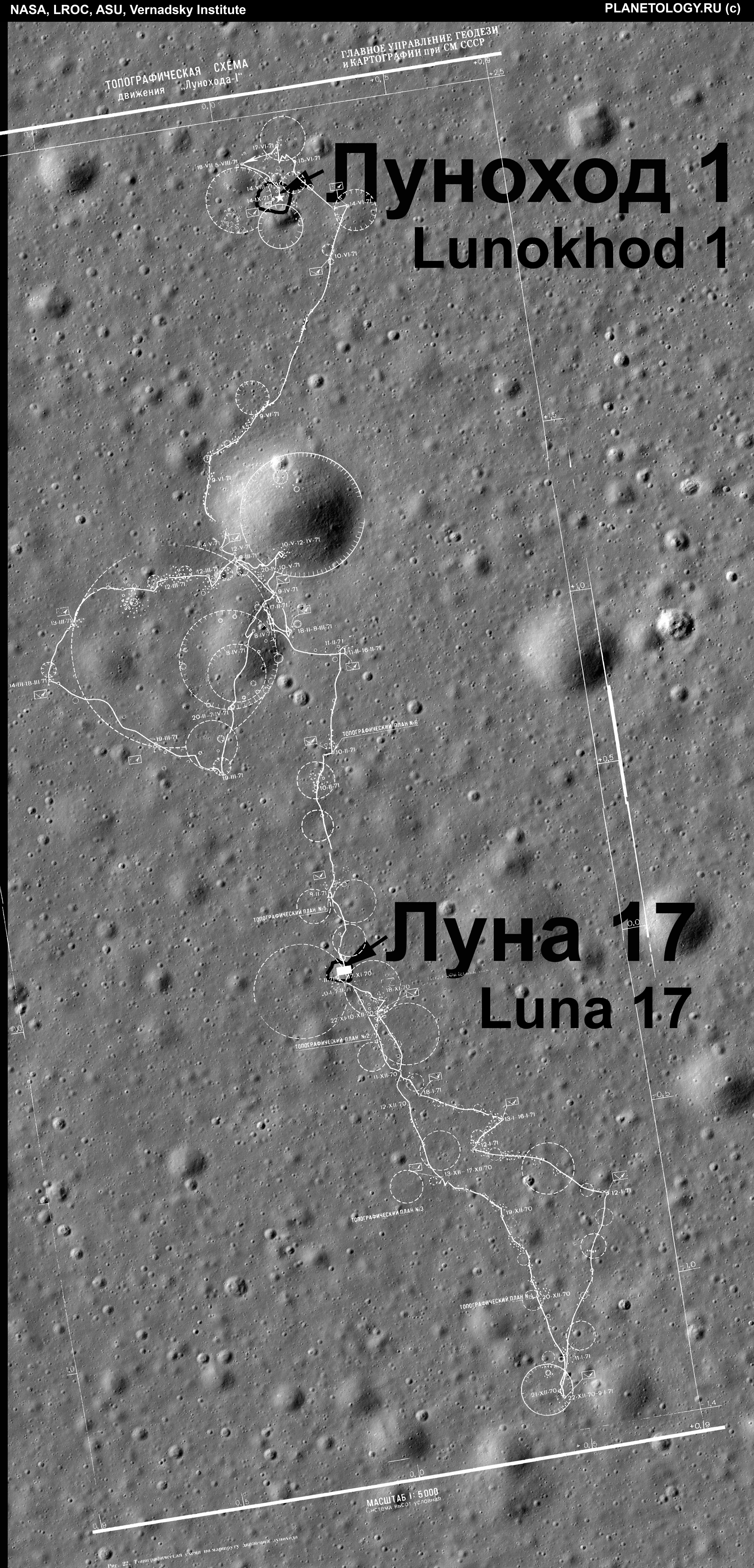 Lunokhod 1 photographed by LRO. Note: it is an old (1978) rough map, inaccurately superimposed on a new LRO photo. Correct map see here